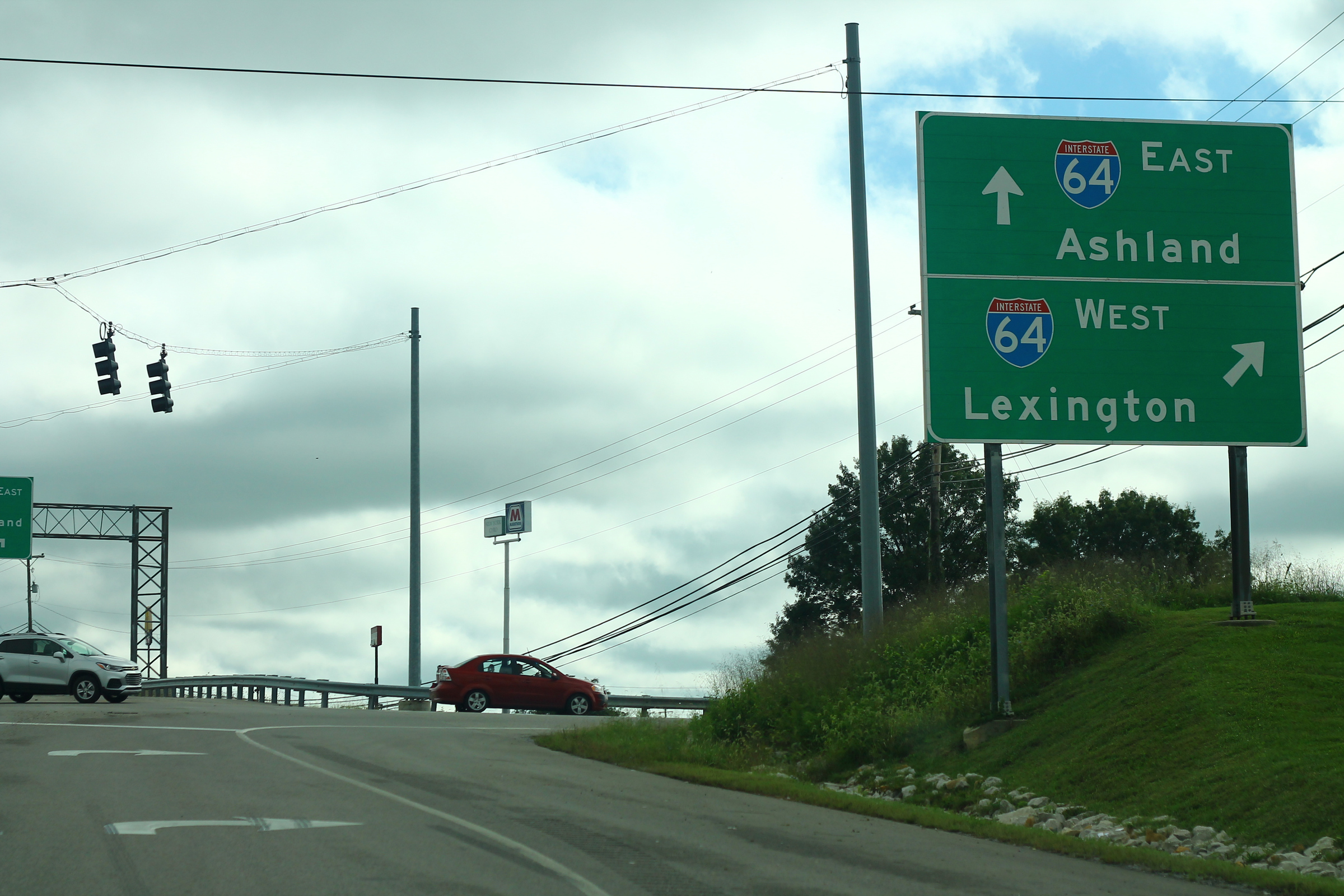 KY11 South US460 East at I-64 Sign